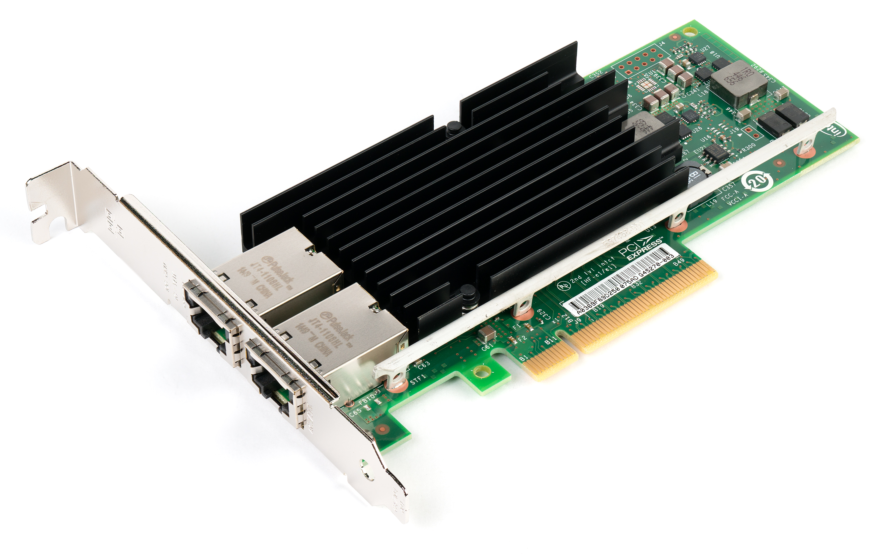 Intel X540-T2, dual port 10 Gigabit Ethernet NIC, PCIe 2.1 x8 card. Two 8P8C (RJ45) connectors, 10GBASE-T standard.